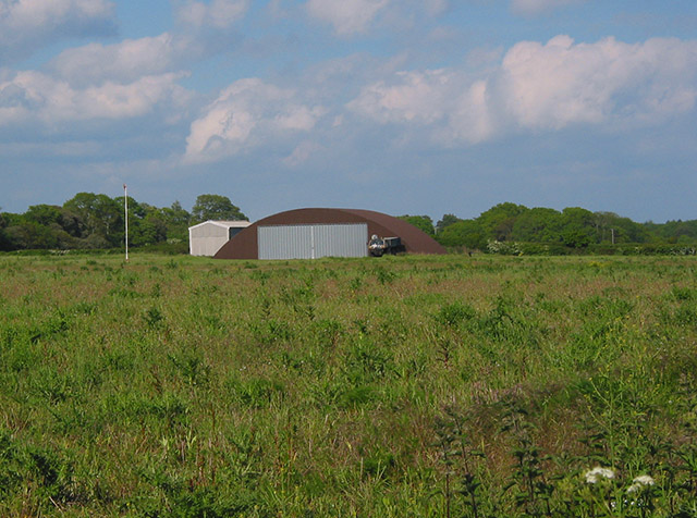 Remains of Lymington Airfield, Snooks Farm. Built in 1943, the airfield was used by American Thunderbolt aircraft in support of the D-day landings. The airfield was returned to farming in 1946. A single blister hangar remains, to the left of which is a white modern building. An Alvis Stalwart 6x6 is parked outside. The presence of a wind sock suggests some continued aeronautical usage. See also 174714.